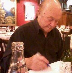 A photo of my grandfather, famous argentine comedian